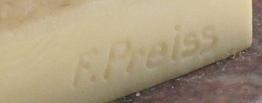 Signature of Ferdinand Preiss